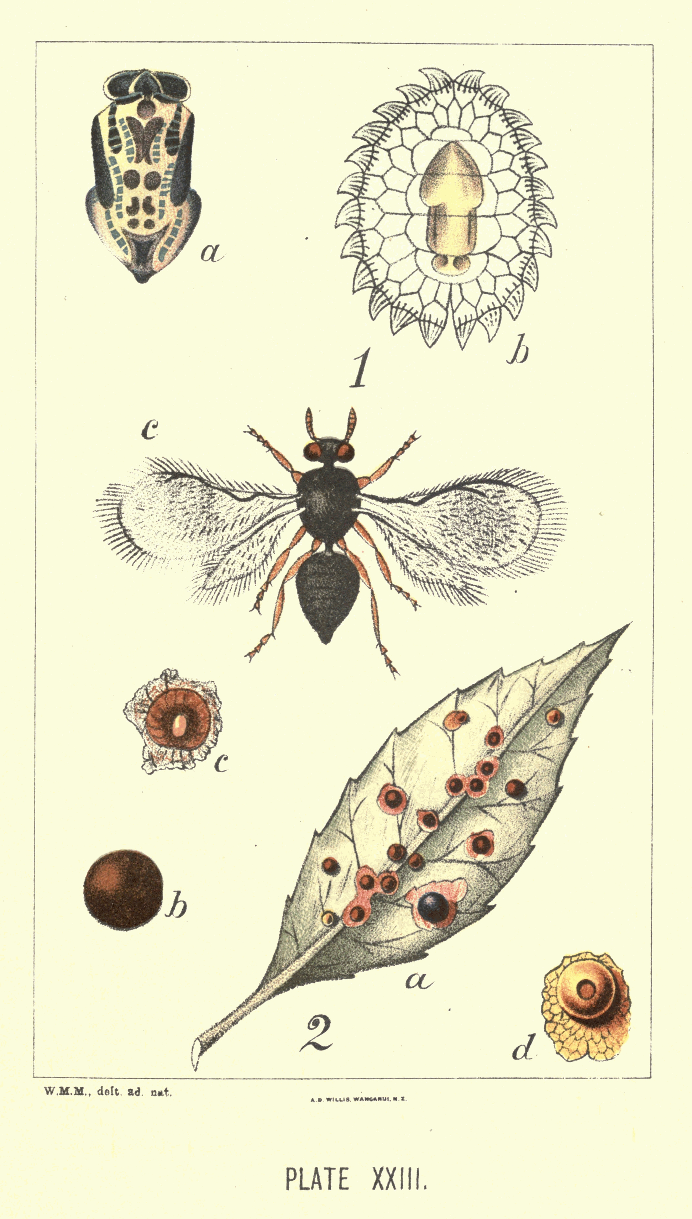 Illustration from the book given under "Source"